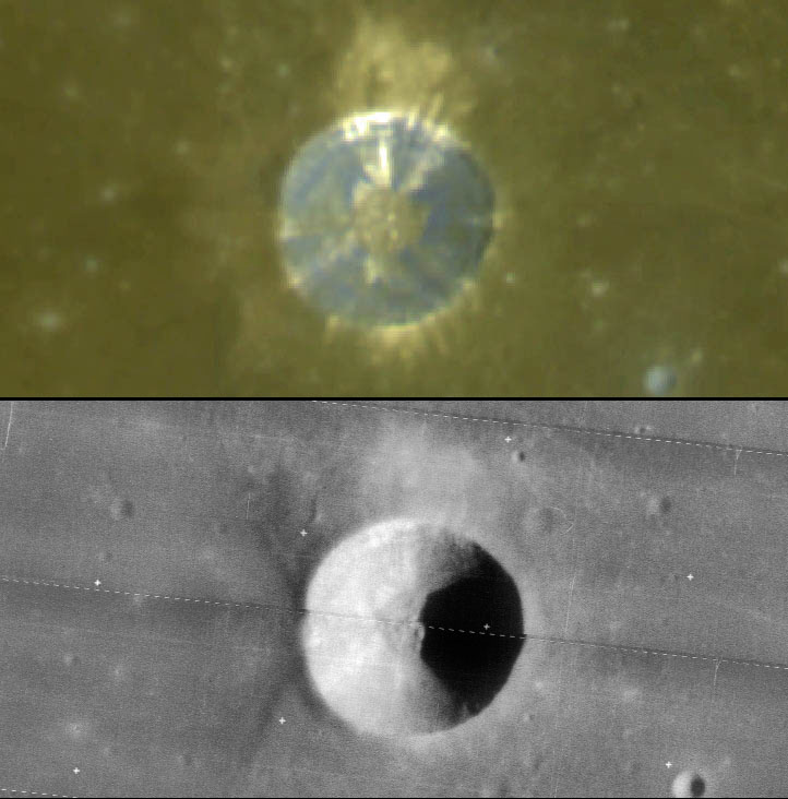 Upper part - Clementine UV-VIS muliti-spectral image, lower part - Lunar Orbiter-IV